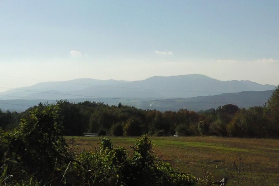 Rokoš, Slovakia